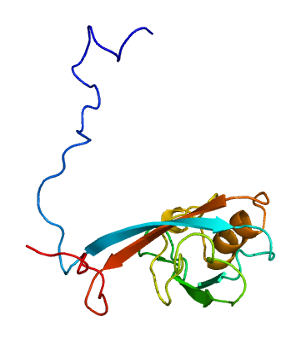 Structure of the IL16 protein. Based on PyMOL rendering of PDB 1i16.